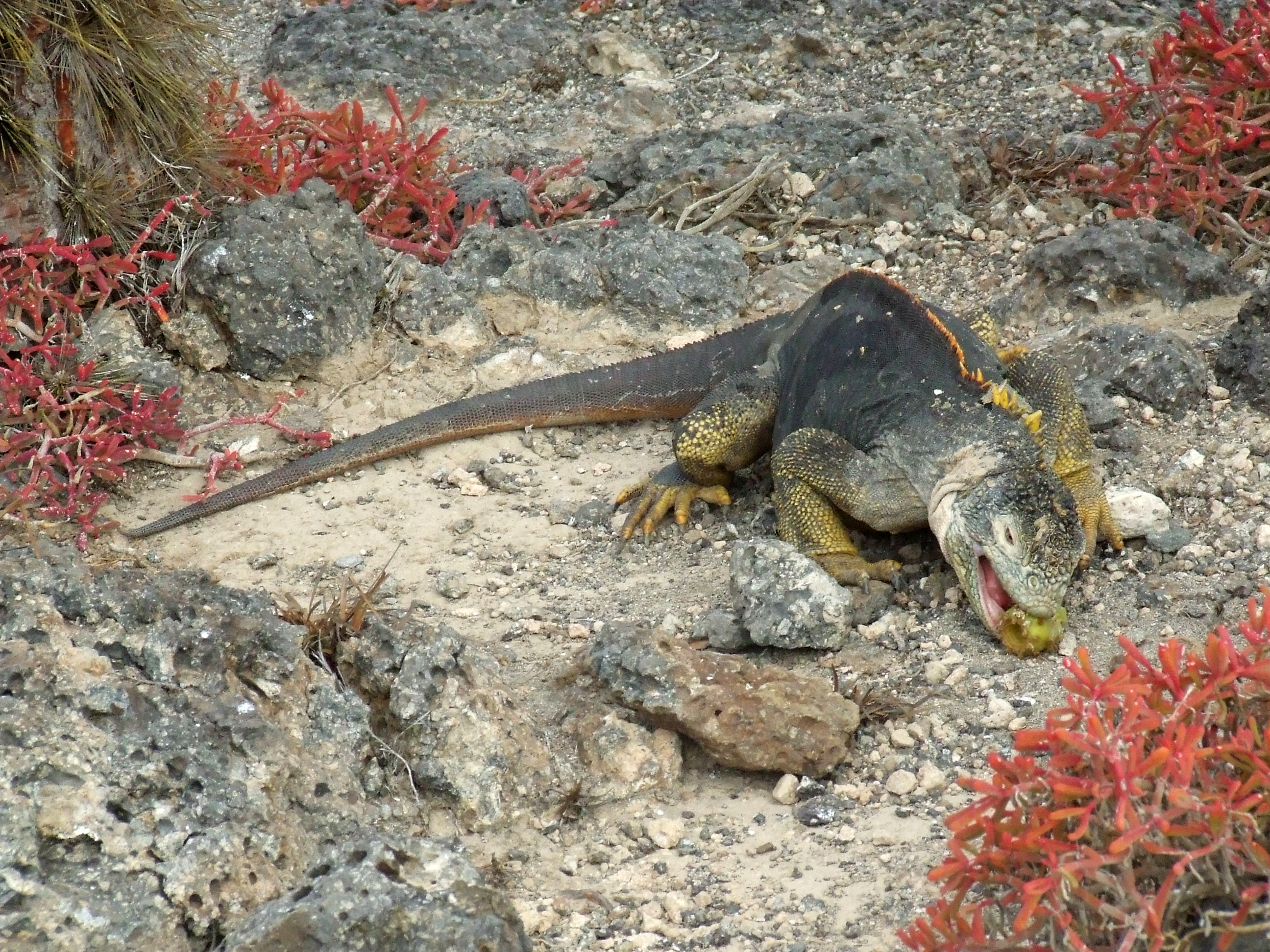 Galapagos islands land iguana feeding